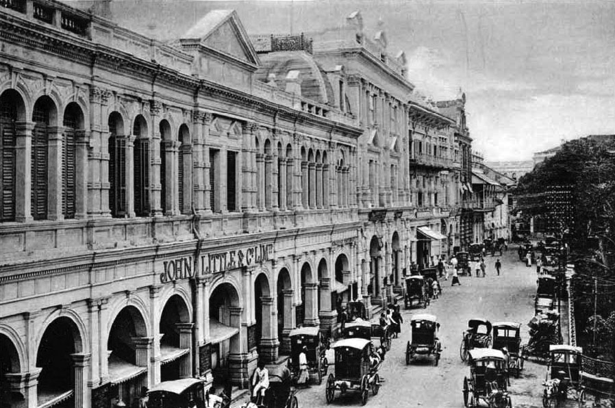 View of Raffles' Square before 1900: horse-drawn taxis ply their trade in front of the John Little & Co. department store.